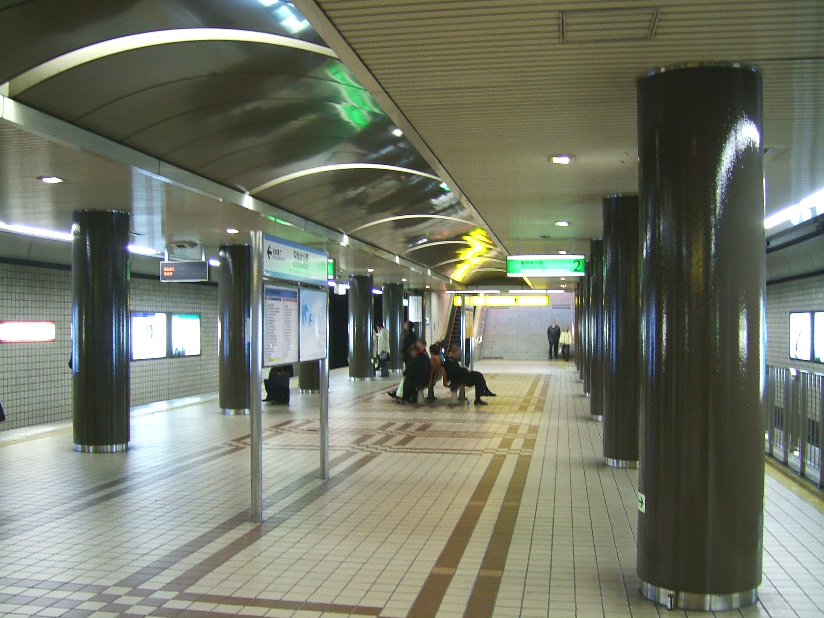 The platform at Kōtōdai-Kōen Station on Sendai subway Nanboku Line